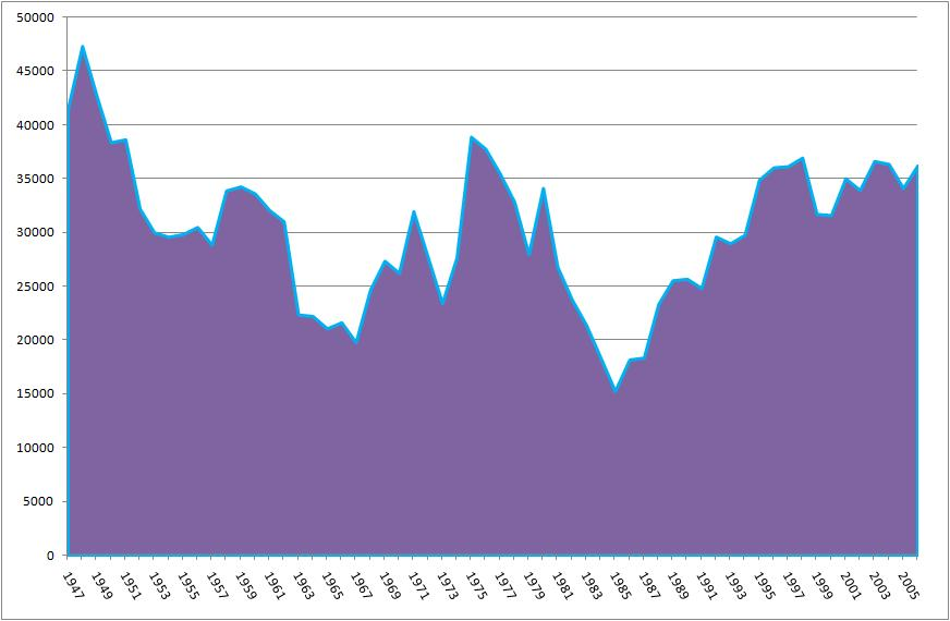 Average attendance since 1947 at Villa Park